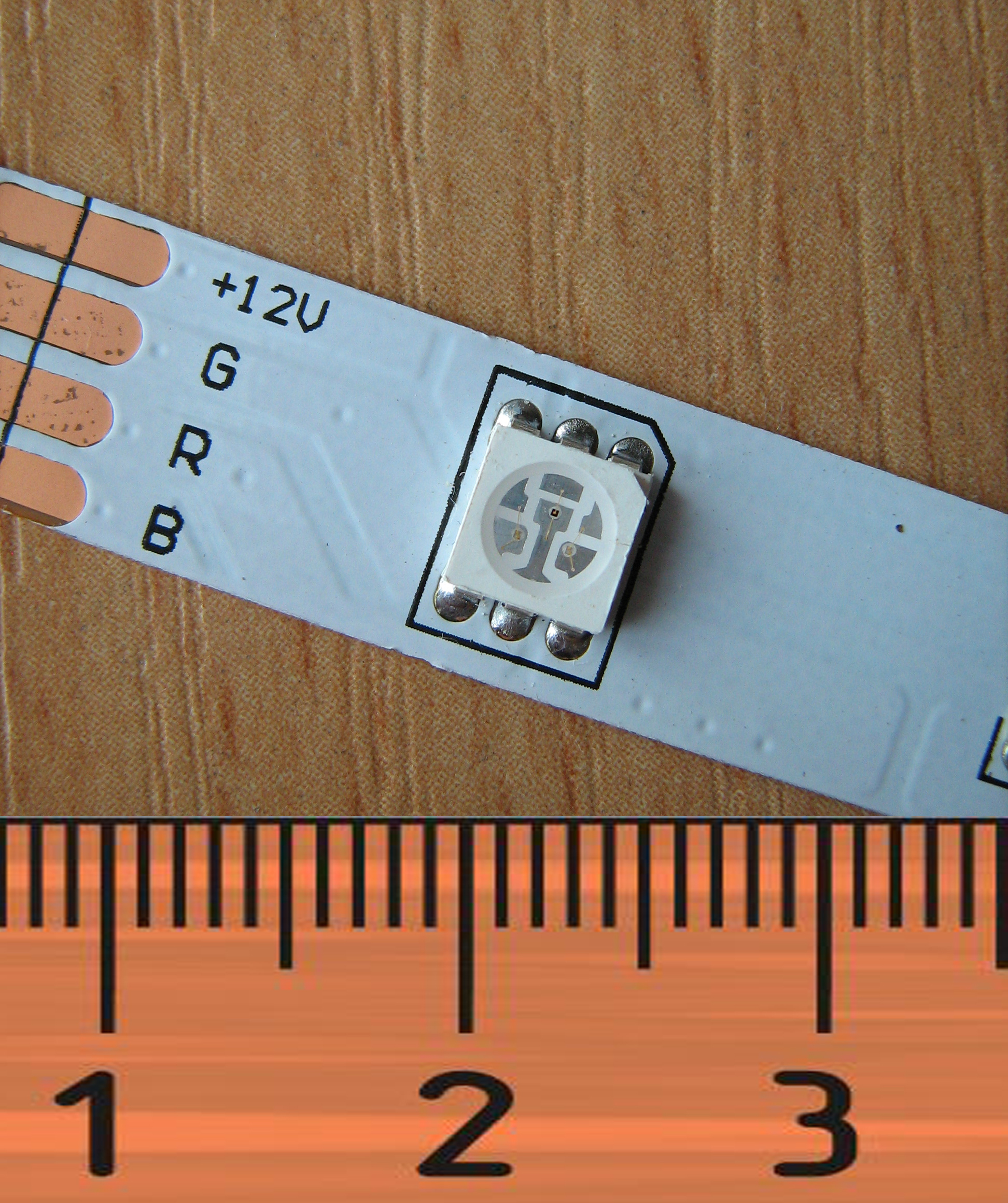 Chip_RGB_LED